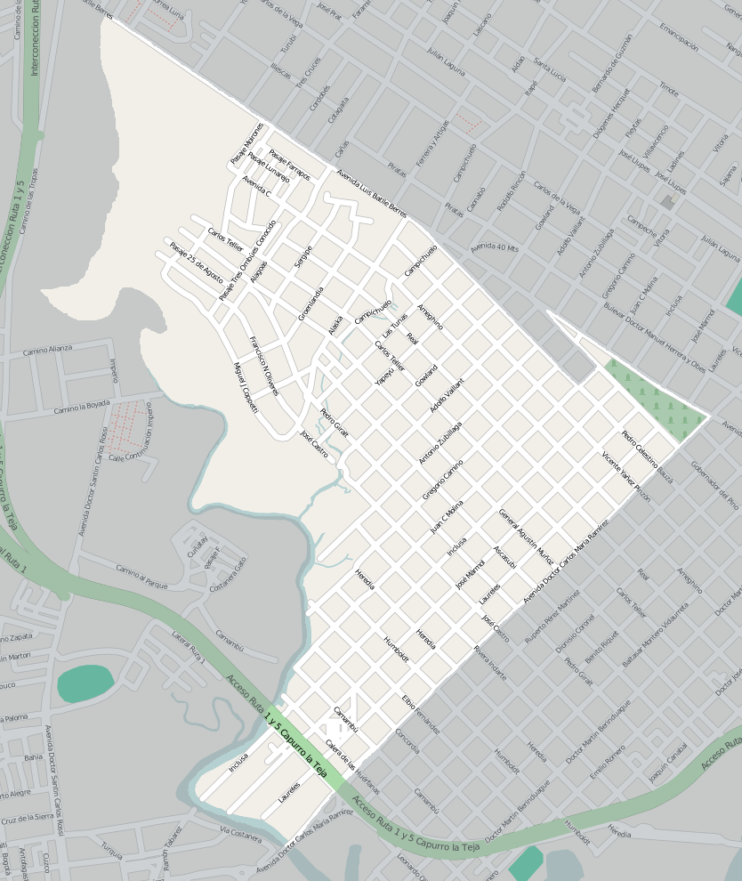 Street map of Tres Ombues - Pueblo Victoria, Montevideo, exported from OpenStreetMap. I added shading to delimit the barrio. This map may be incomplete, and may contain errors. Don't rely solely on it for navigation.